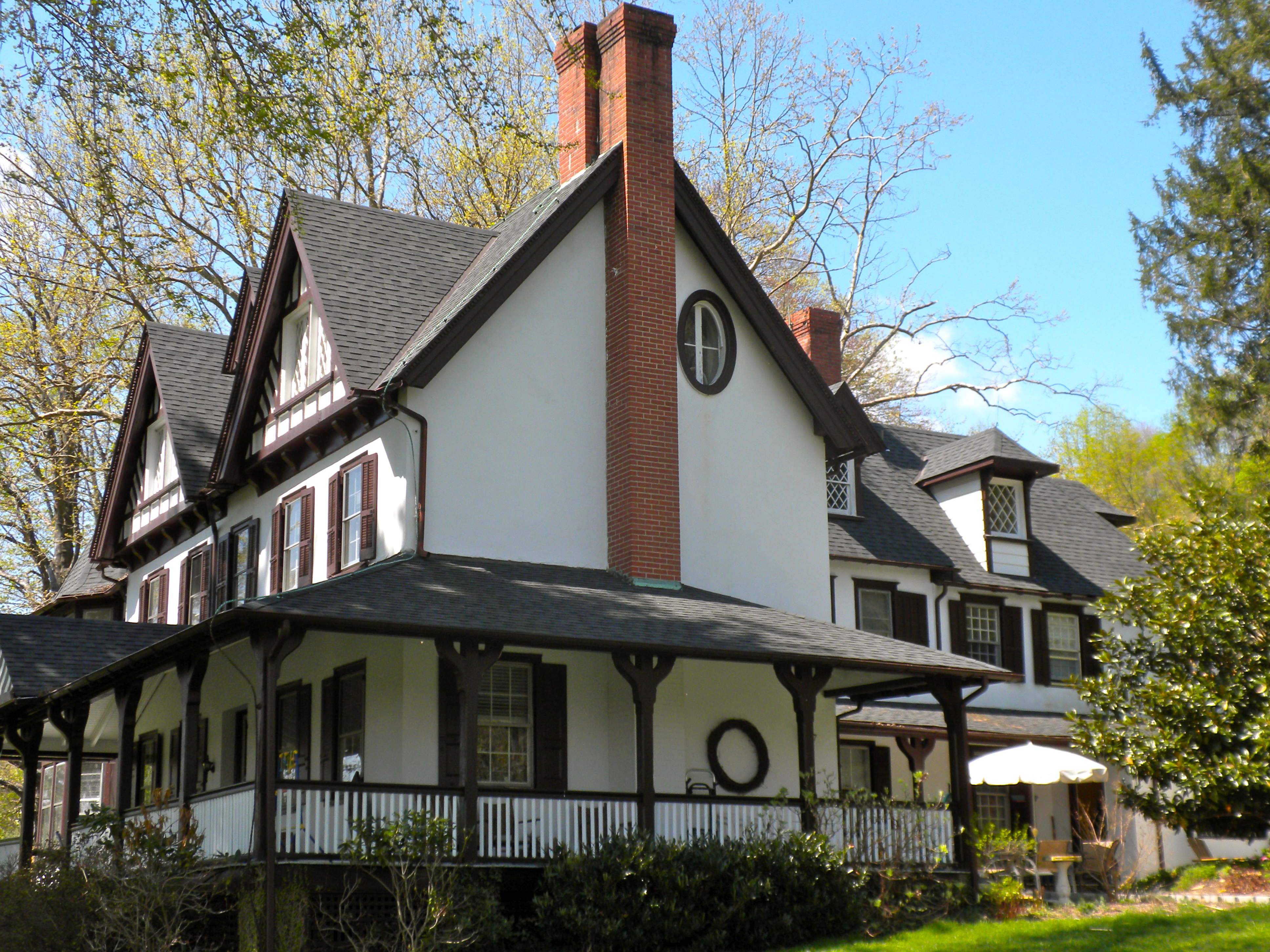 John Bell Farm on NRHP since September 6, 1984. At 463 North Ship Road (corner with Old Valley Rd) in West Whiteland Township, Chester County, PA